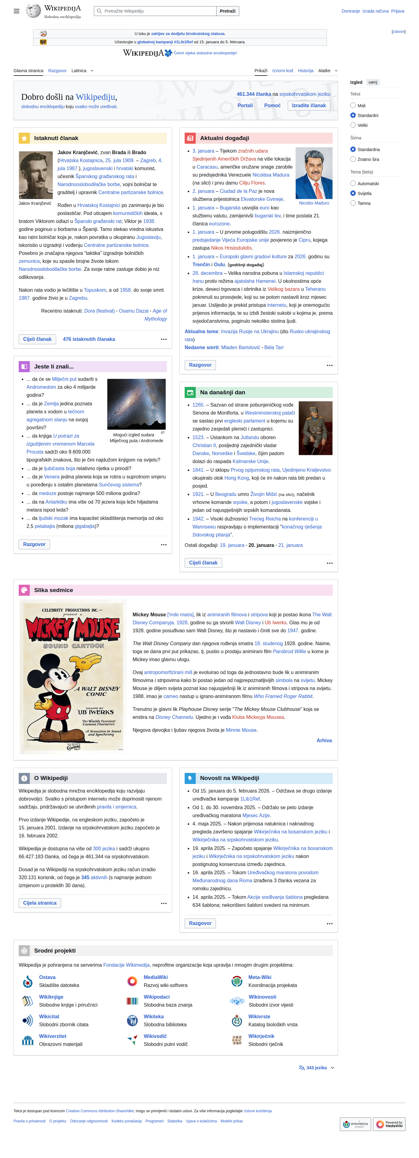 Main page of the Serbo-Croatian Wikipedia